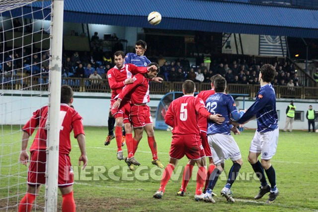 Football match HŠK Zrinjski Mostar-FK Željezničar